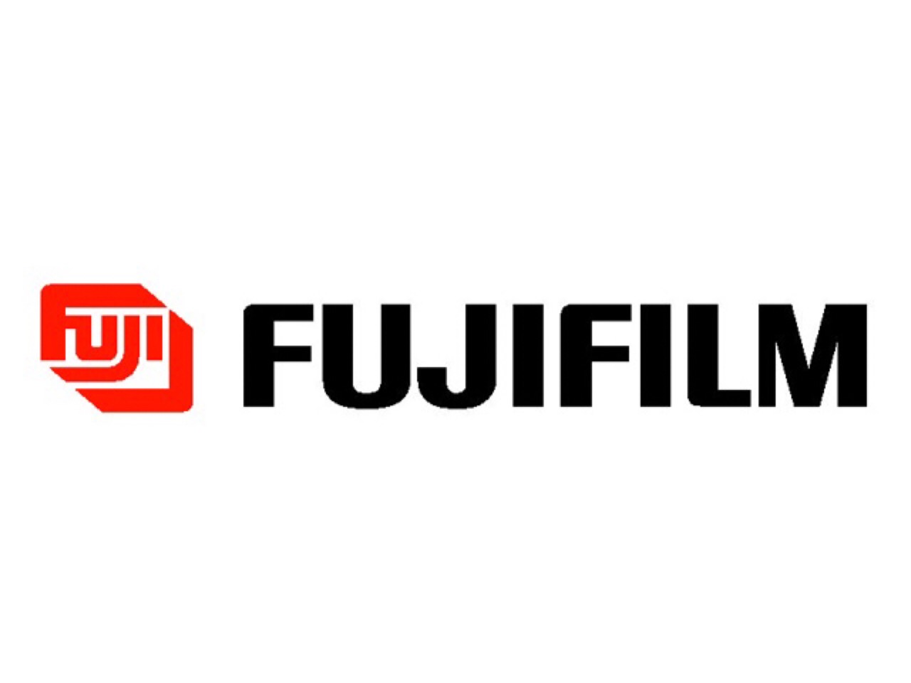 Old logo of FUJIFILM